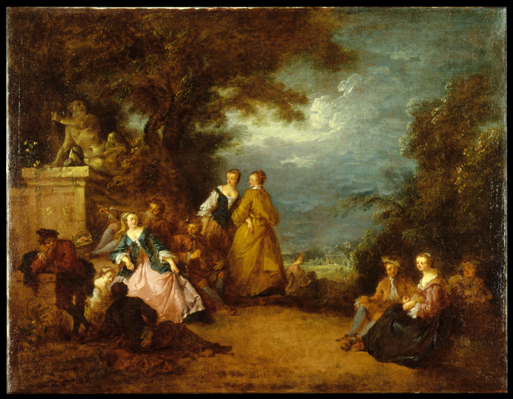 This painting was originally attributed to Jean Baptiste Joseph Pater, an artist who specialized in idealized park scenes with amorous couples, known as "fêtes champêtres," a category of painting associated with the early 18th-century master Jean-Antoine Watteau (1684-1721). Recent research has indicated that it is more likely by Bonaventure de Bar, a follower of Watteau.